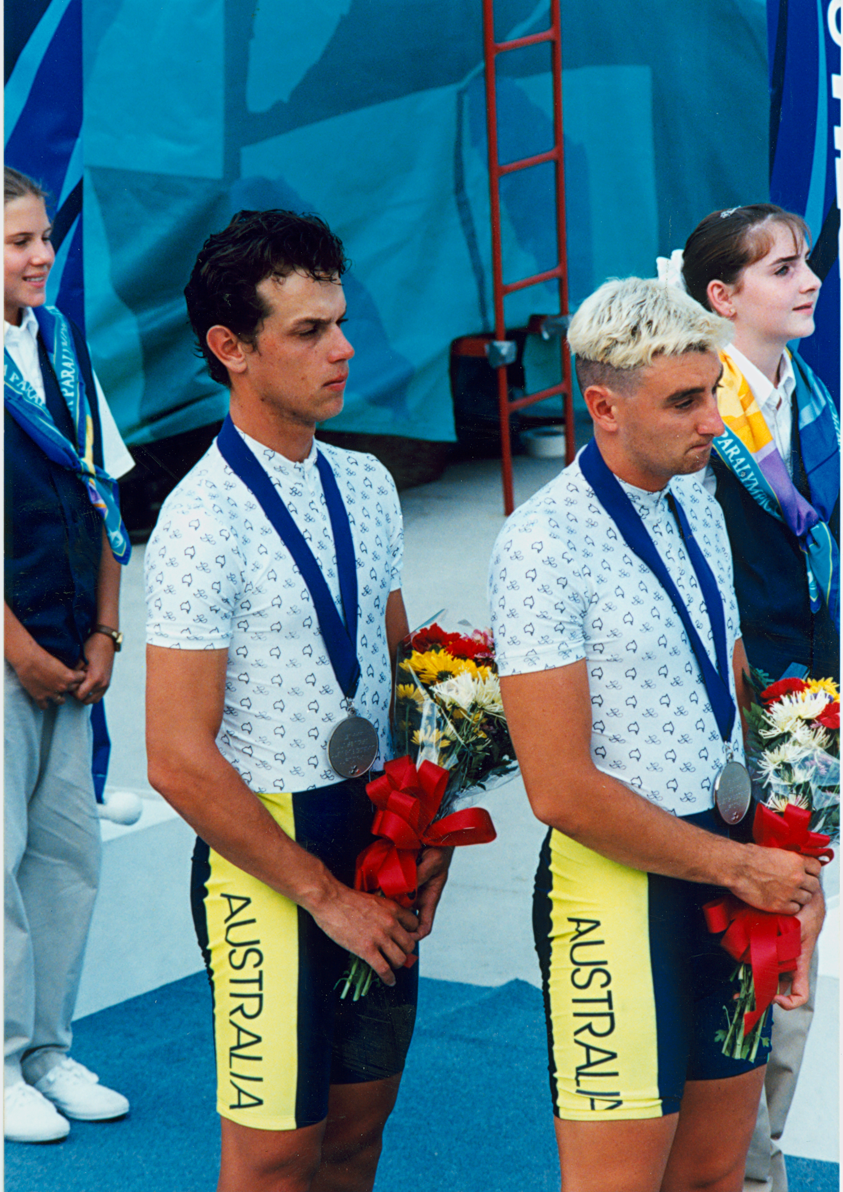 Australian men's tandem team cyclists Eddy Hollands (sighted pilot, left) and Paul Clohessy (vision impaired, right) on the medal podium after receiving their silver medals for the Men's Tandem Individual Pursuit at the Atlanta 1996 Paralympic Games.